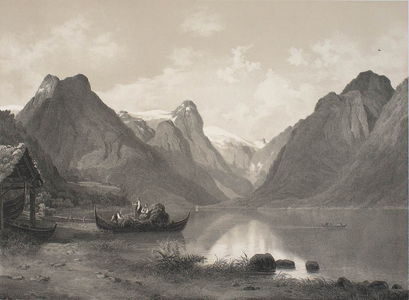 Pictures from the work "Norge fremstillet i Tegninger" from 1848 by Christian Tønsberg. The picture depicts Fjærlandsfjorden, Norway.